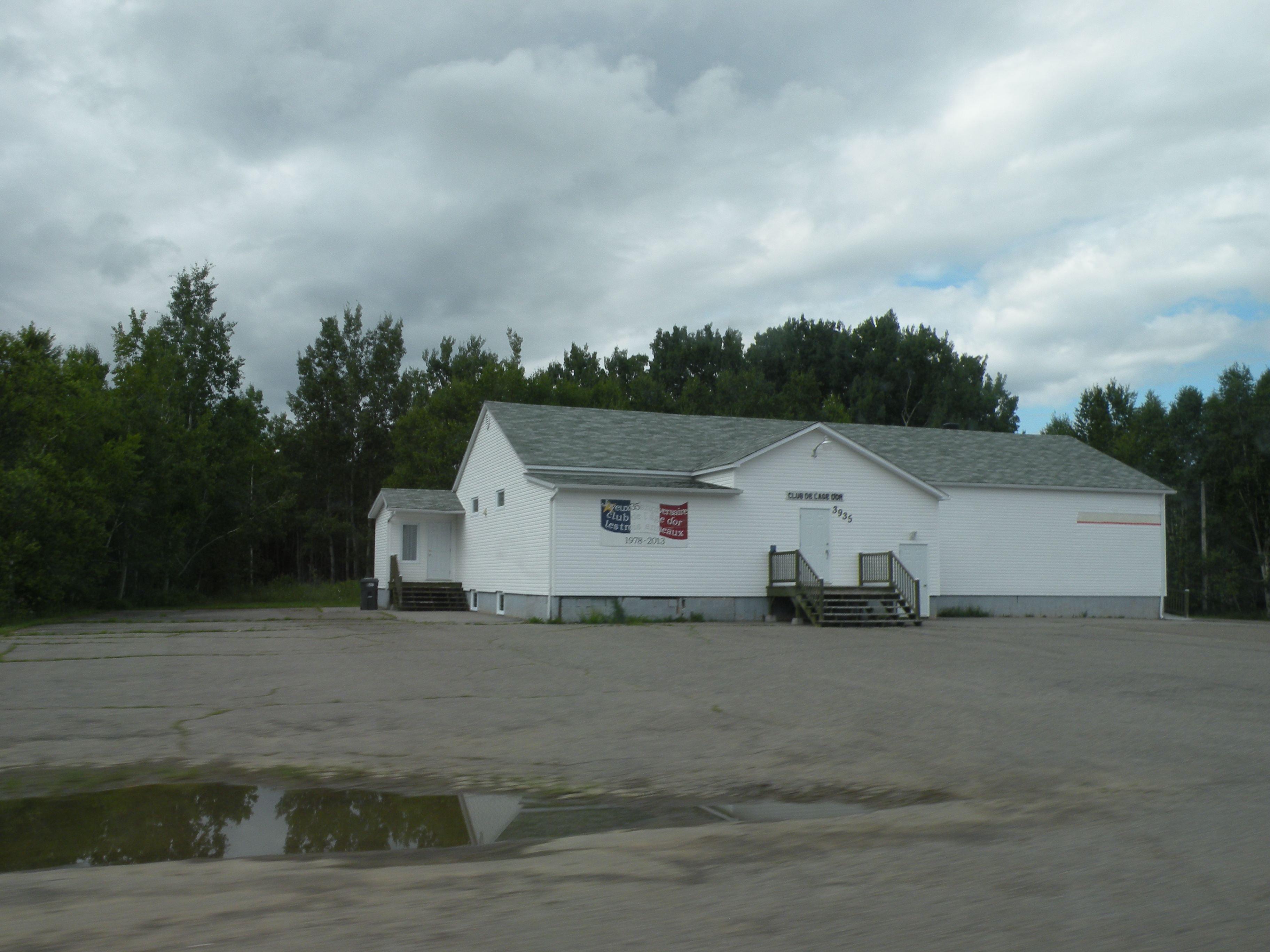 The golden age club in Notre-Dame-des-Érables, New Brunswick, Canada.